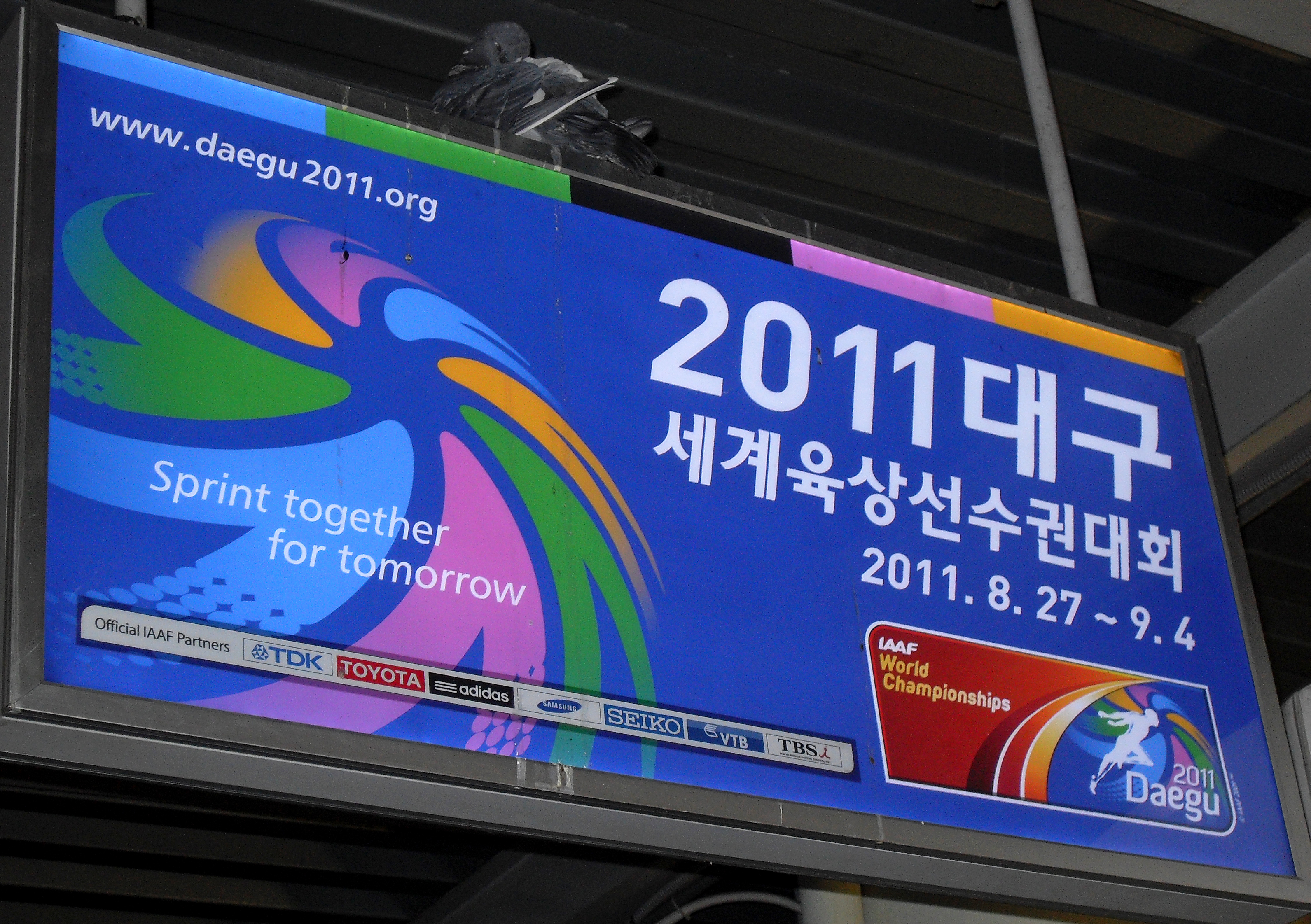 2011 World Championships in Athletics poster at Dongdaegu station.